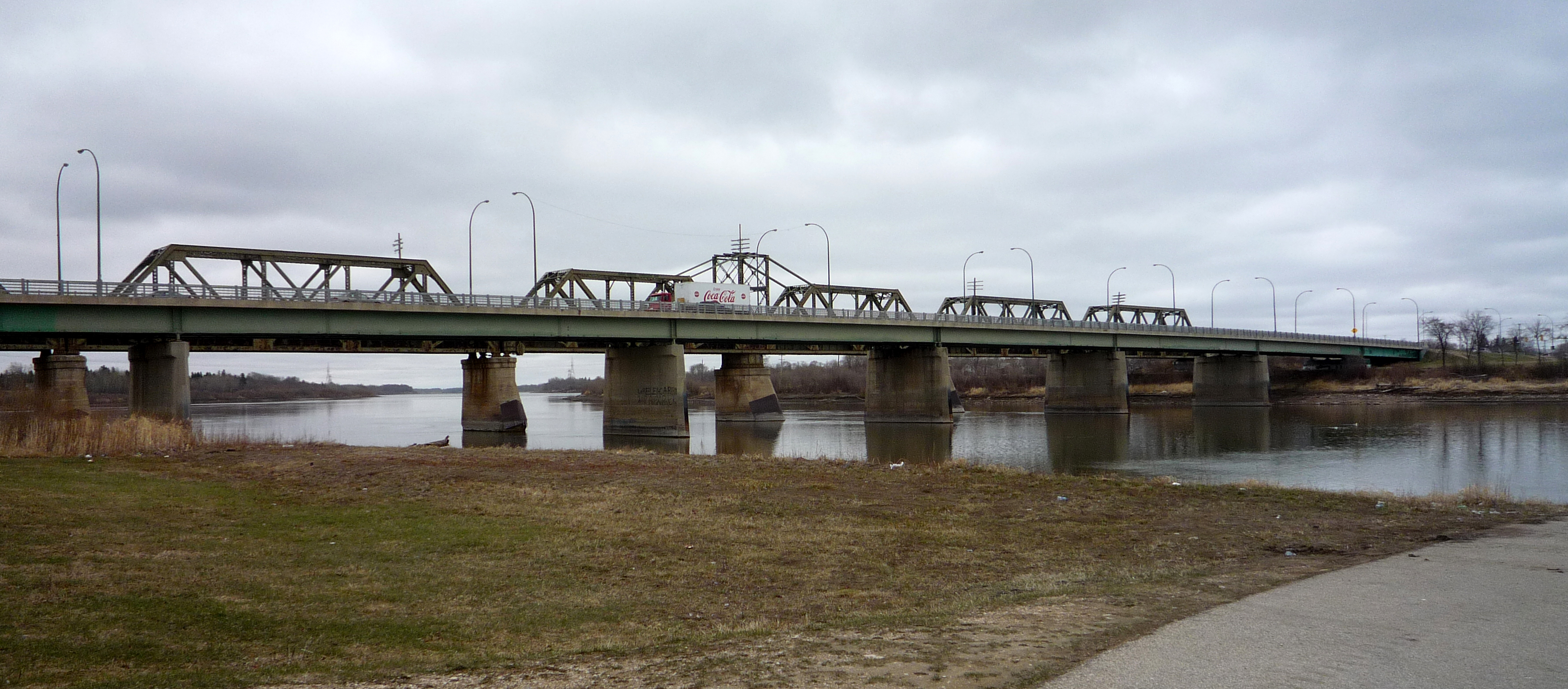 Manitoba Highway 10 crosses the Saskatchewan River at The Pas, Manitoba; there is a second, separate railway bridge behind the road bridge.